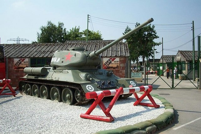 Eden Camp A tank stands guard at the gates.